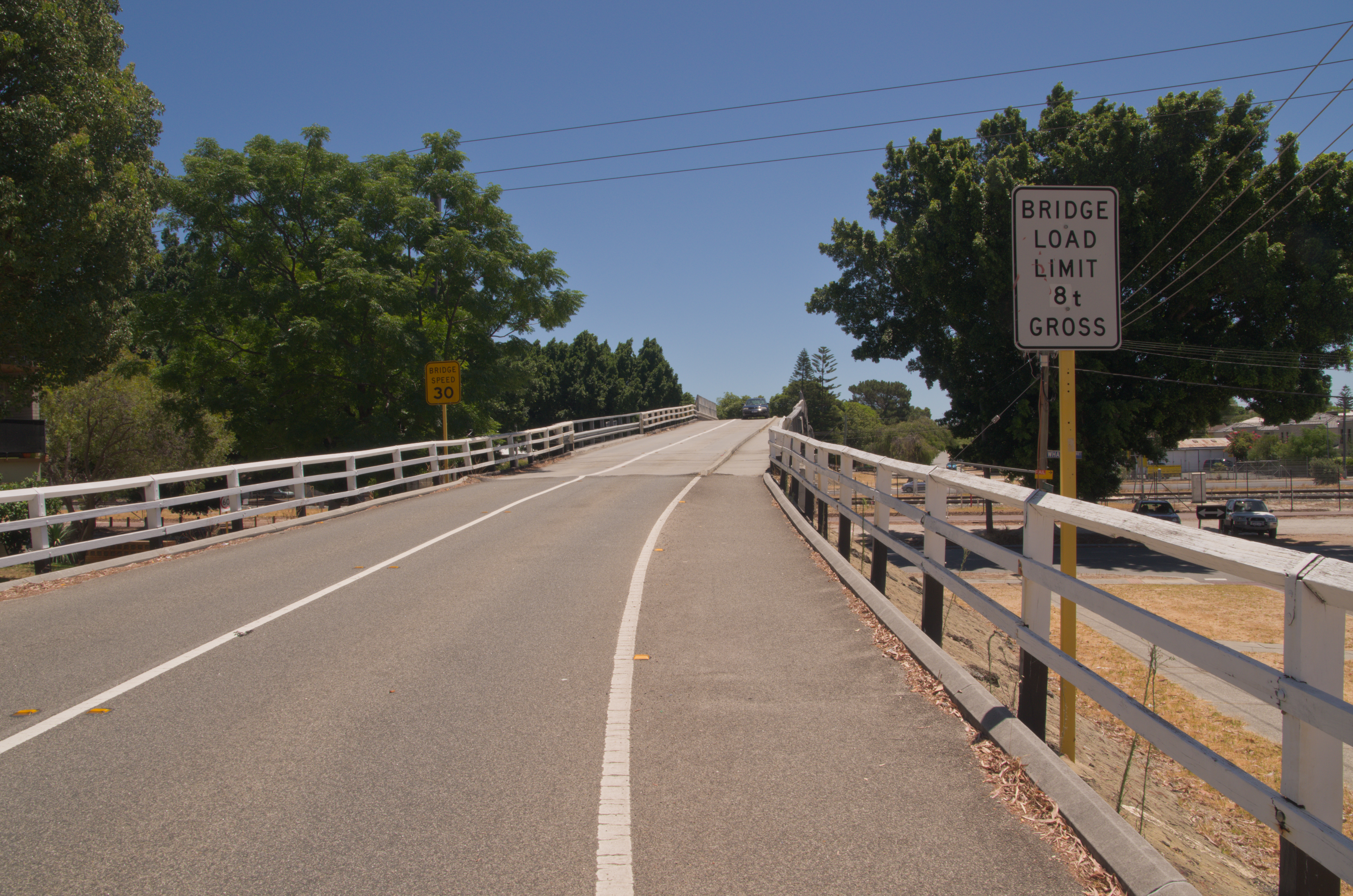 7th Avenue Bridge Maylands, Whatley Cresent approach